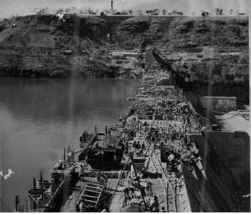 Govindlal Vora was a socialist while being a journalist and hence he went an extra mile to capture the story of hardships, changes and improvements of the tribal sections of Chhattisgarh. He dug into their living conditions, traditions, agricultural practices and financial evolutions of these people while covering the Dandakaranya Project.